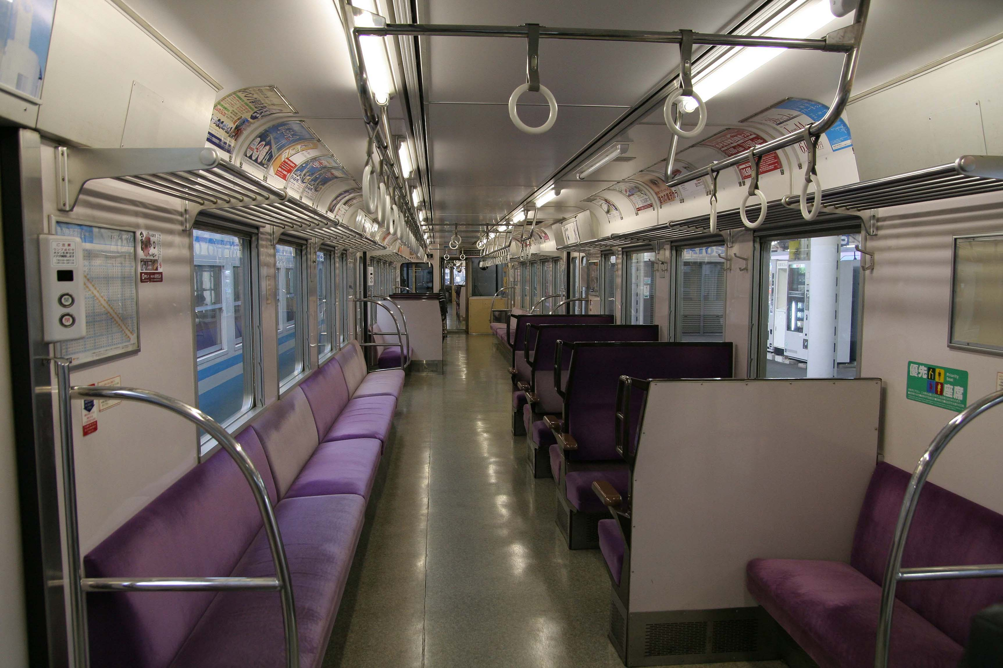 Interior of JR Shikoku 7000 series EMU car 7018 at Takamatsu Station